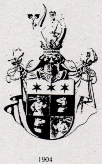 Coat of Arms of Count Seefried von Buttenheim, Austria